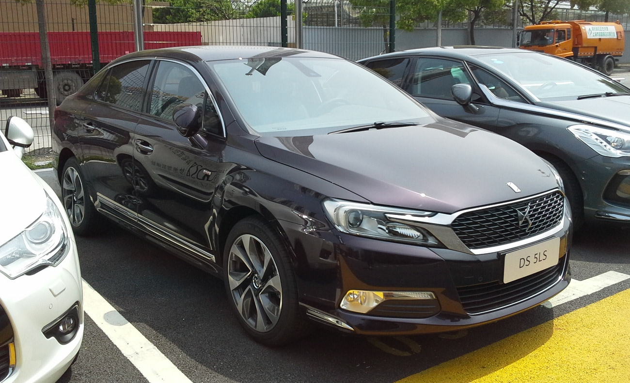 DS 5LS photographed in Shanghai, China.